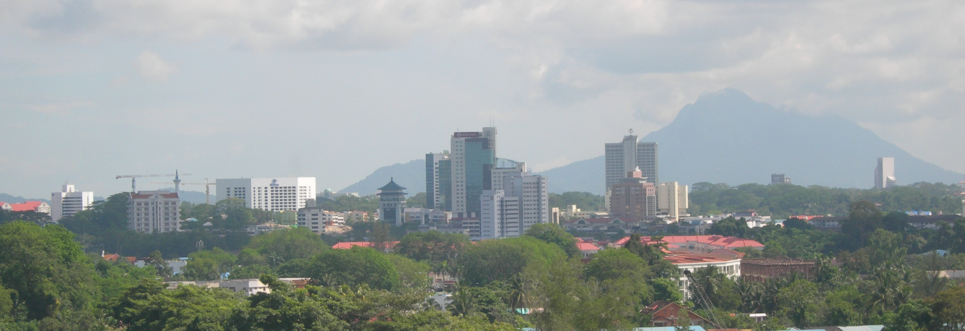 View of Kuching from 9th floor of Swinburne University of Technology, Sarawak Campus. The mountain in the background is Santubong.